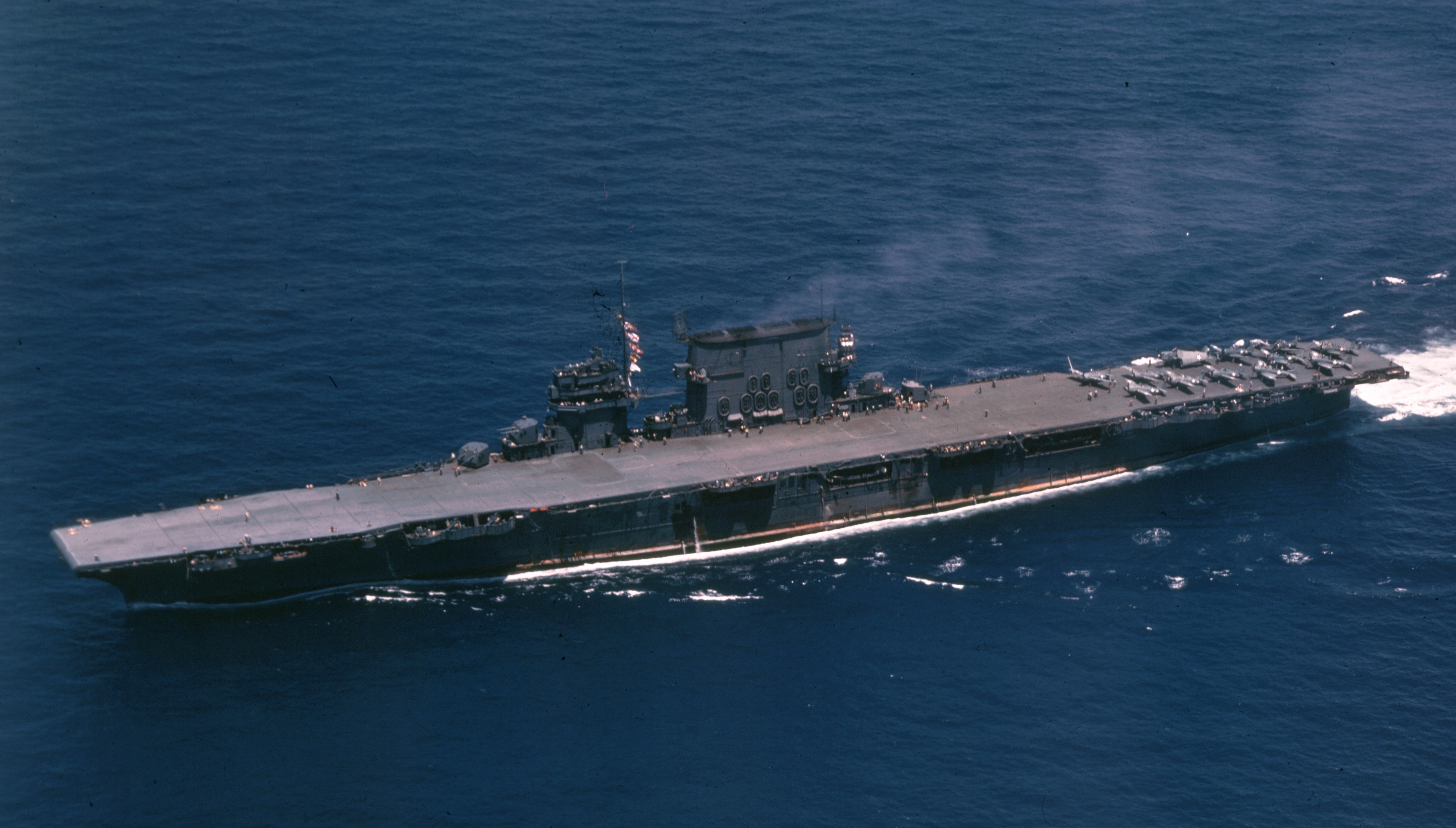 The U.S. Navy aircraft carrier USS Saratoga (CV-3), circa 1942. Planes on deck include five Grumman F4F-4 Wildcat fighters, six Douglas SBD-3 Dauntless dive bombers and one Grumman TBF-1 Avenger torpedo plane.